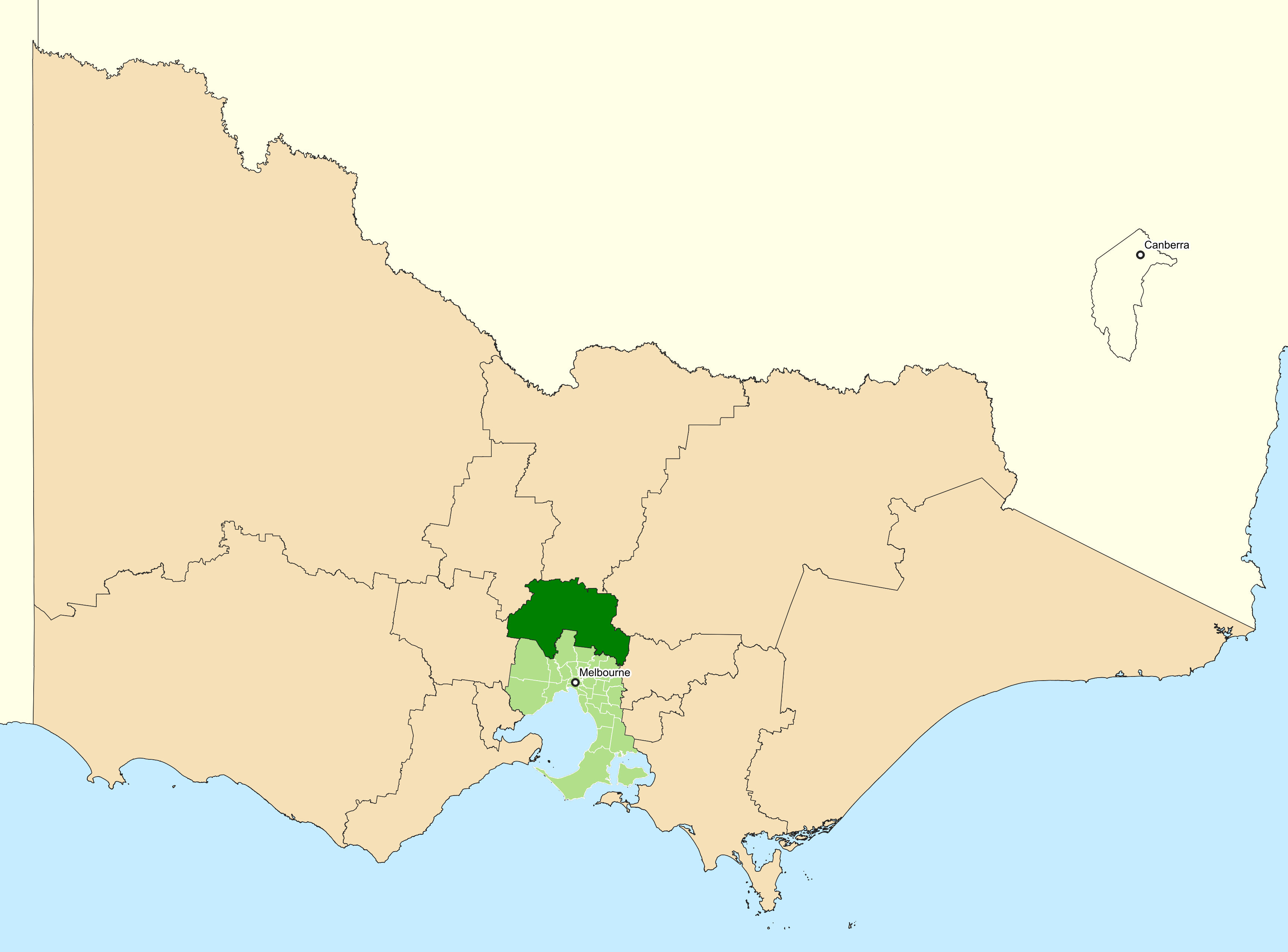 Location of the Australian federal electoral division of McEwen (dark green) in Victoria as of the 2019 Australian federal election. Incorporates or developed using Administrative Boundaries ©PSMA Australia Limited licensed by the Commonwealth of Australia under Creative Commons Attribution 4.0 International licence (CC BY 4.0).